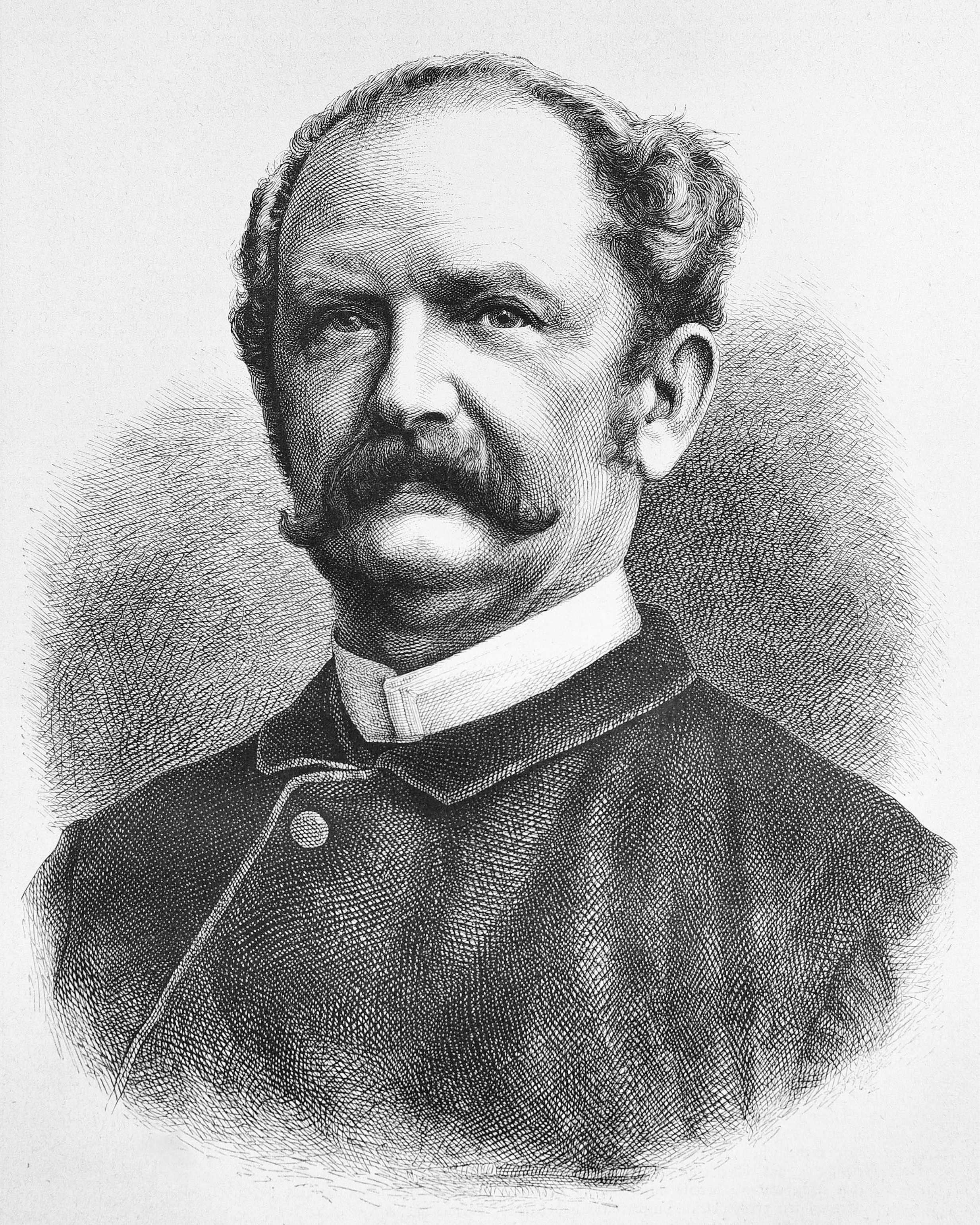 caption: "Ernst Keil Nach einer Photographie von W. Höffert in Leipzig auf Holz gezeichnet von Adolf Neumann."